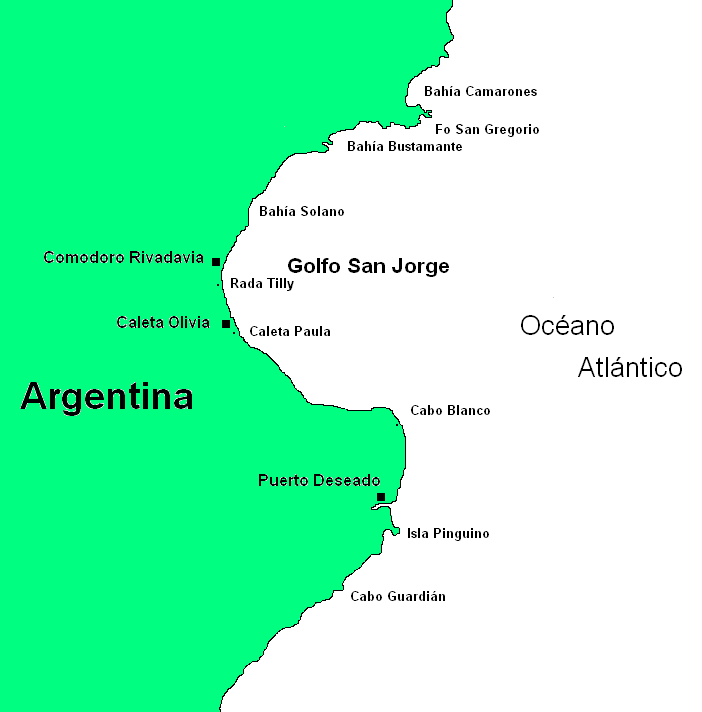 Graphic about main details of argentine continental coast